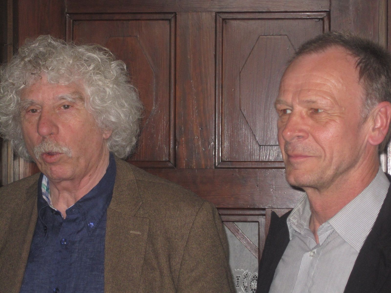 chairmen of german PEN 2013: Johano Strasser and Josef Haslinger